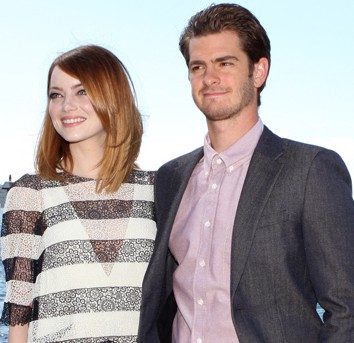 Emma Stone and Andrew Garfield in The Amazing Spiderman 2: Rise Of Electro in Sydney, Australia 2014.